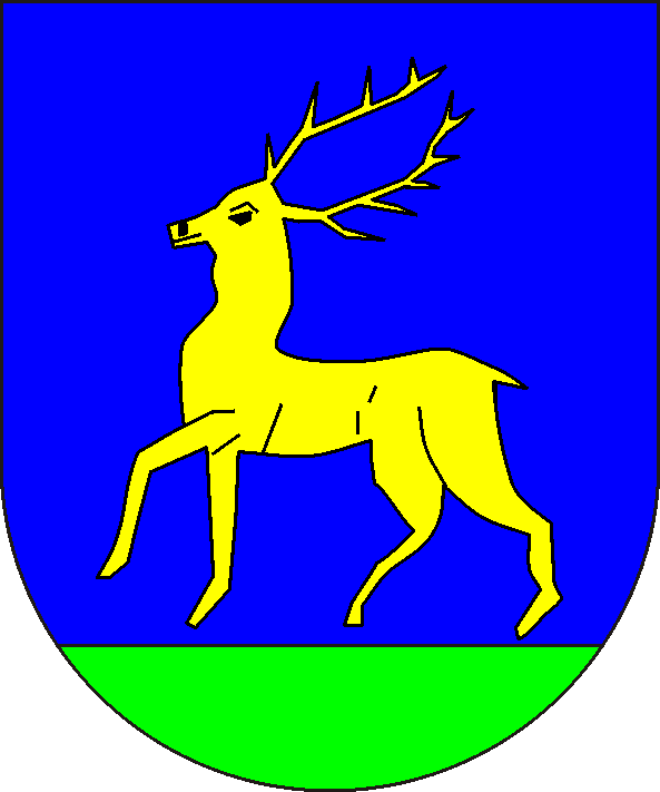 coats of arms of the county of Sigmaringen